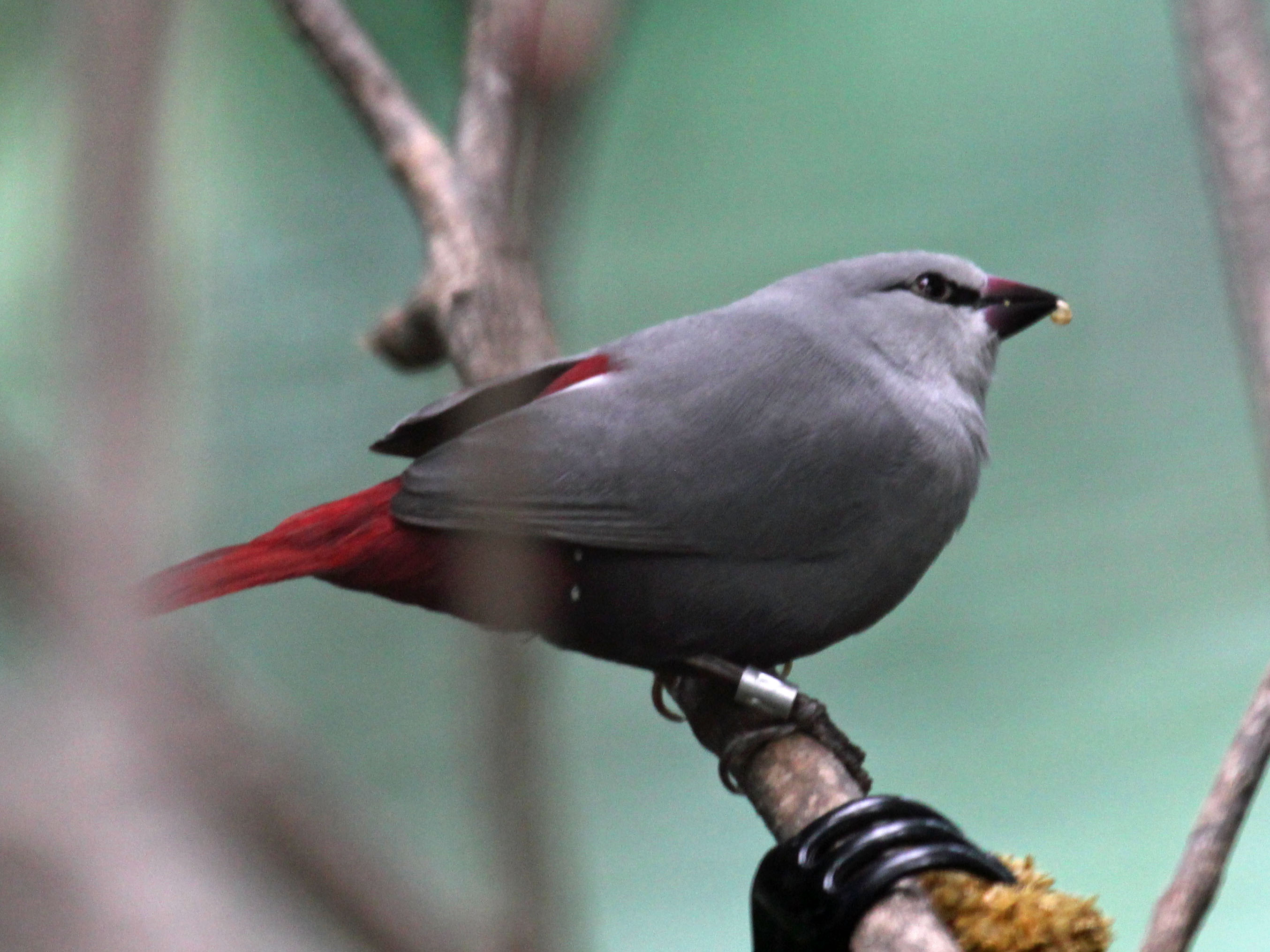 Lavender Waxbill (Estrilda caerulescens) - San Diege Zoo